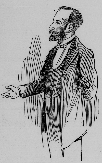 Los Angeles Times drawing of Los Angeles City Attorney Aurelius W. Hutton